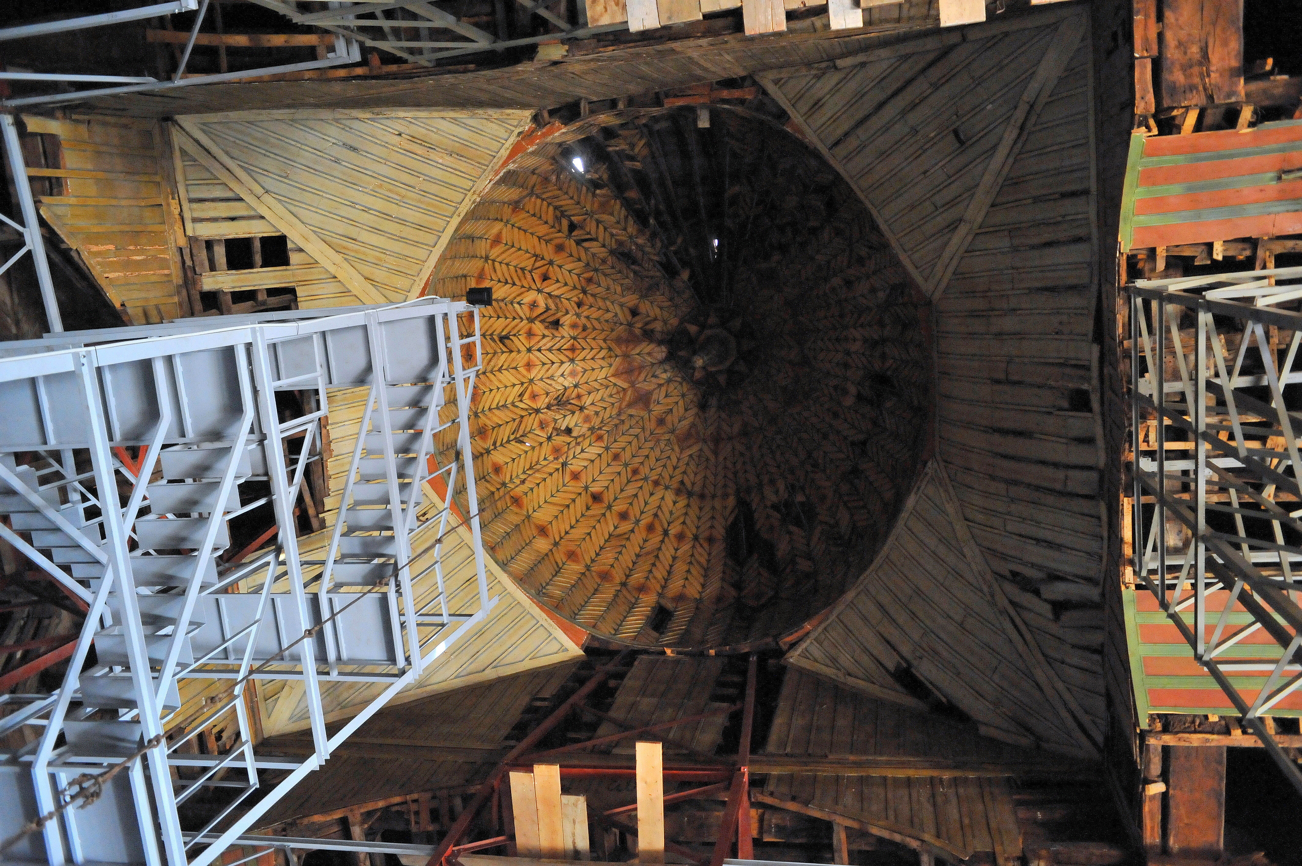 Bayezid (Mehmed I) Mosque (inside - under renovation), Didymoteicho, Evros, Greece.